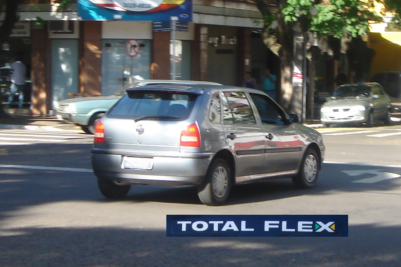 VW Gol Mk3 TotalFlex 2003, the first Brazilian flexible-fuel vehicle. Picture taken at Maringa, Parana, Brazil.